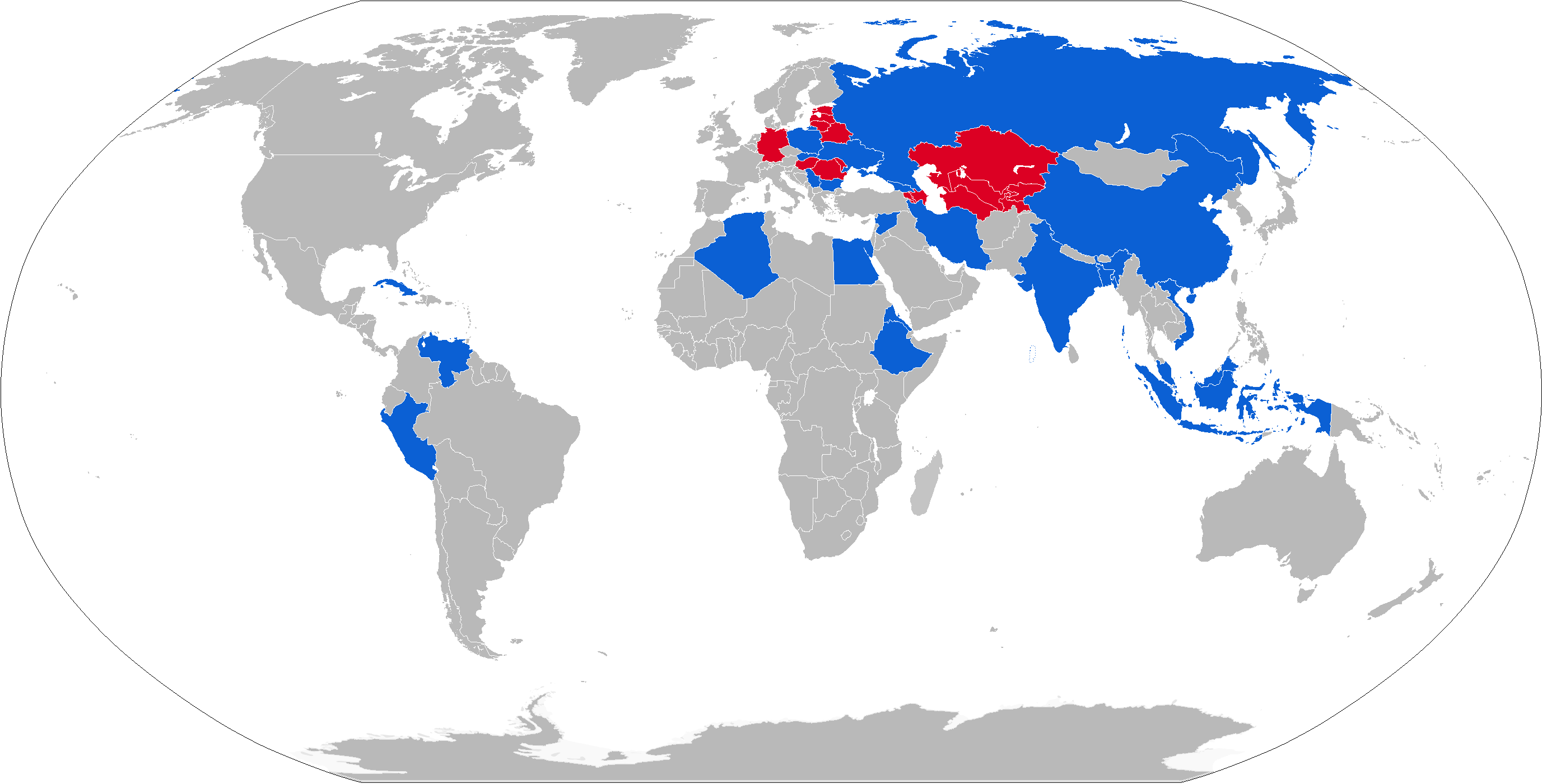 Map with R-73 operators in blue